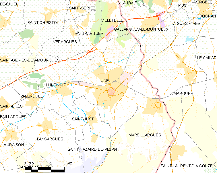 Map commune FR insee code 34145.png - Lunel